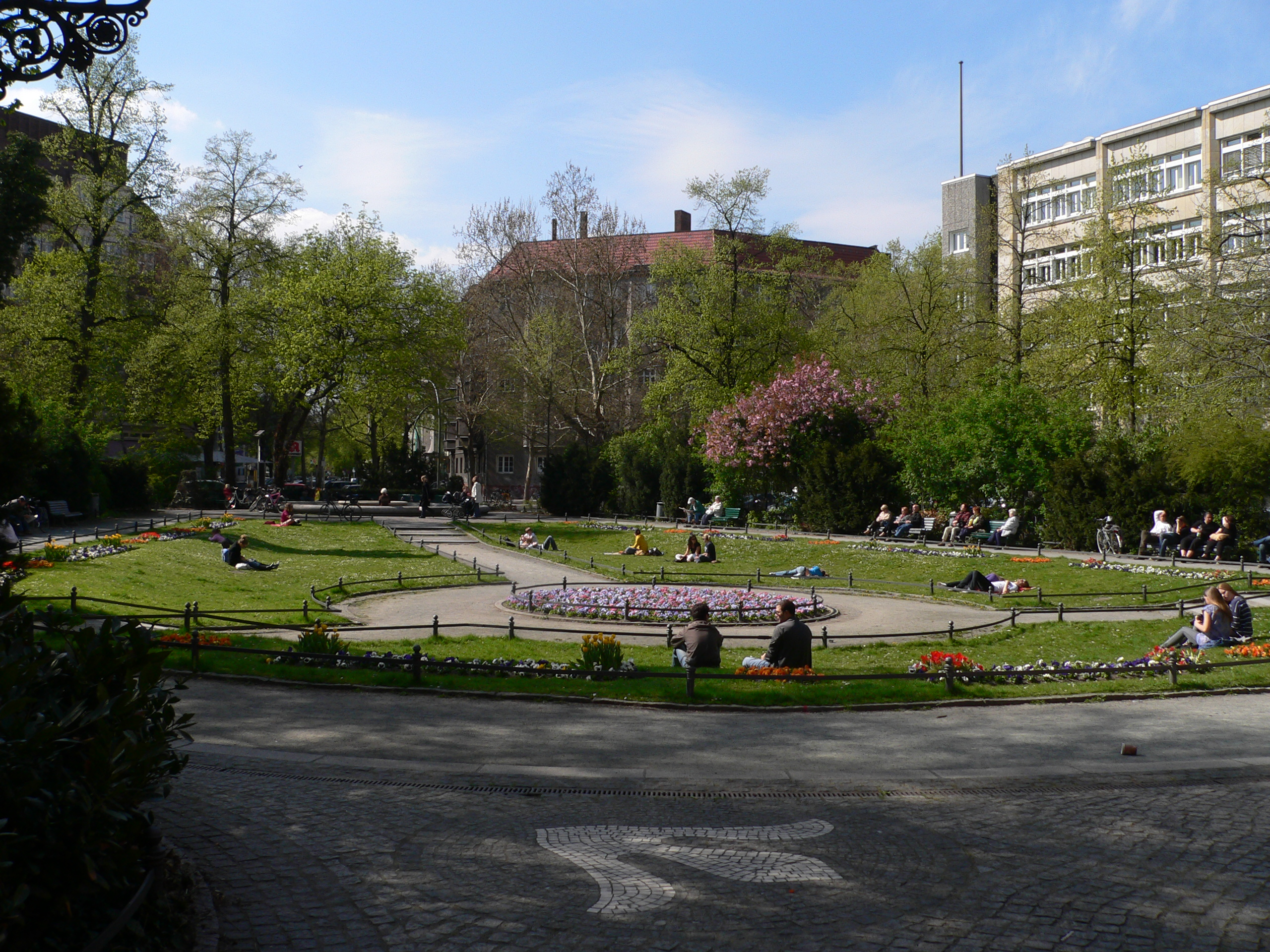 Berlin-Wilmersdorf Ludwigkirchplatz